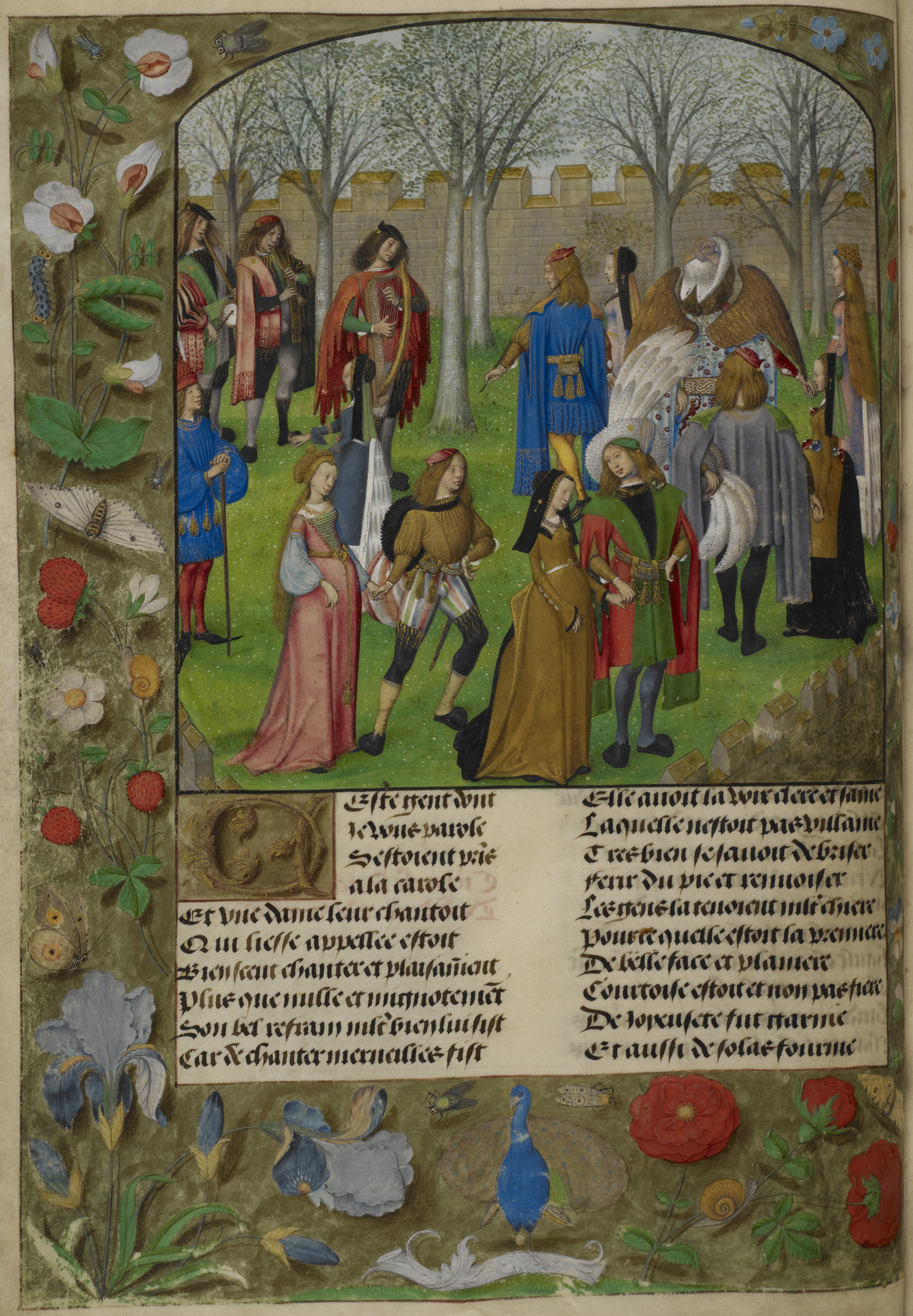 The Carolle in the Garden. The Lover is invited to dance with a group of couples led by Sir Mirth and Lady Gladness.